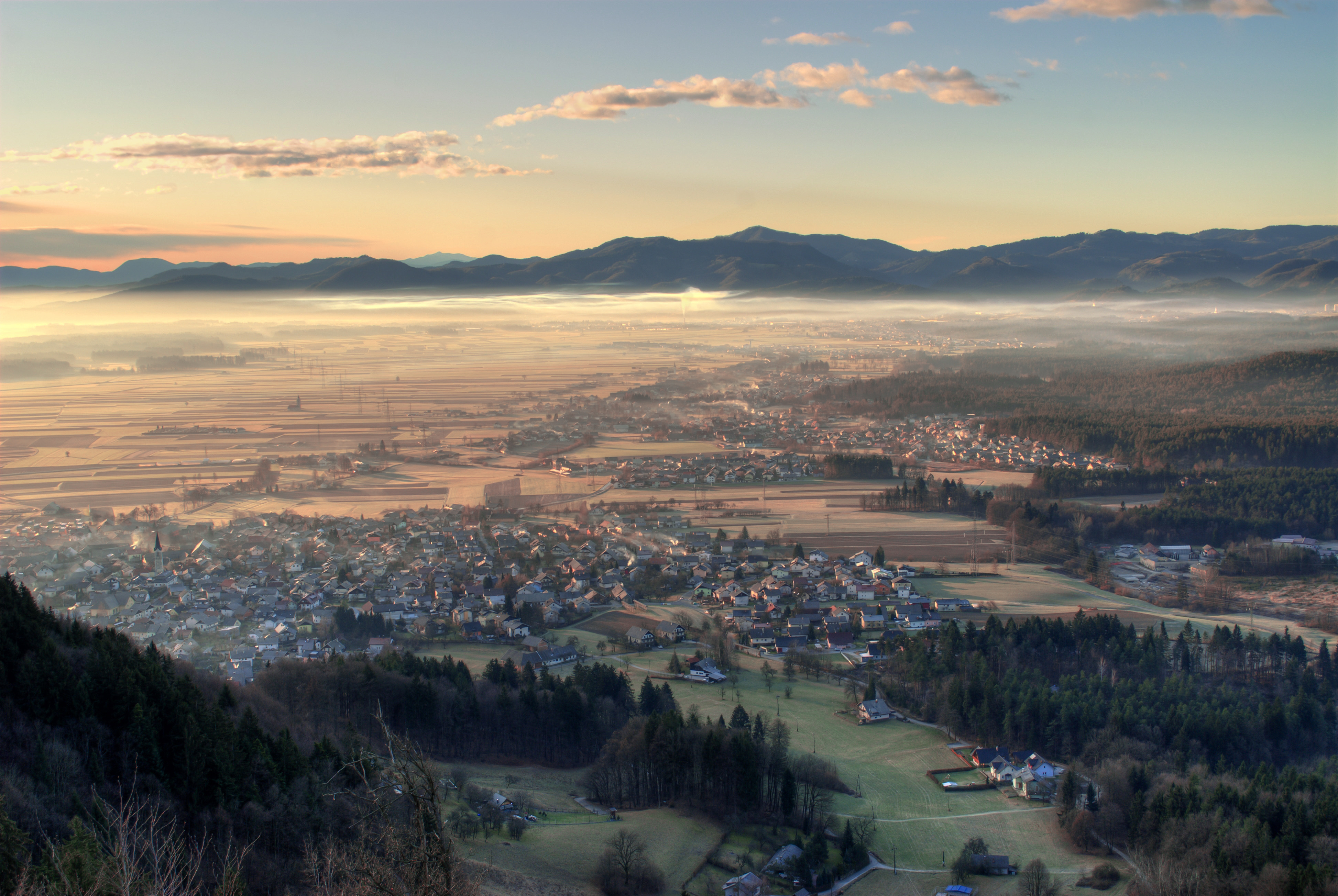 Šmarjetna gora, view towards Škofja Loka, Slovenia